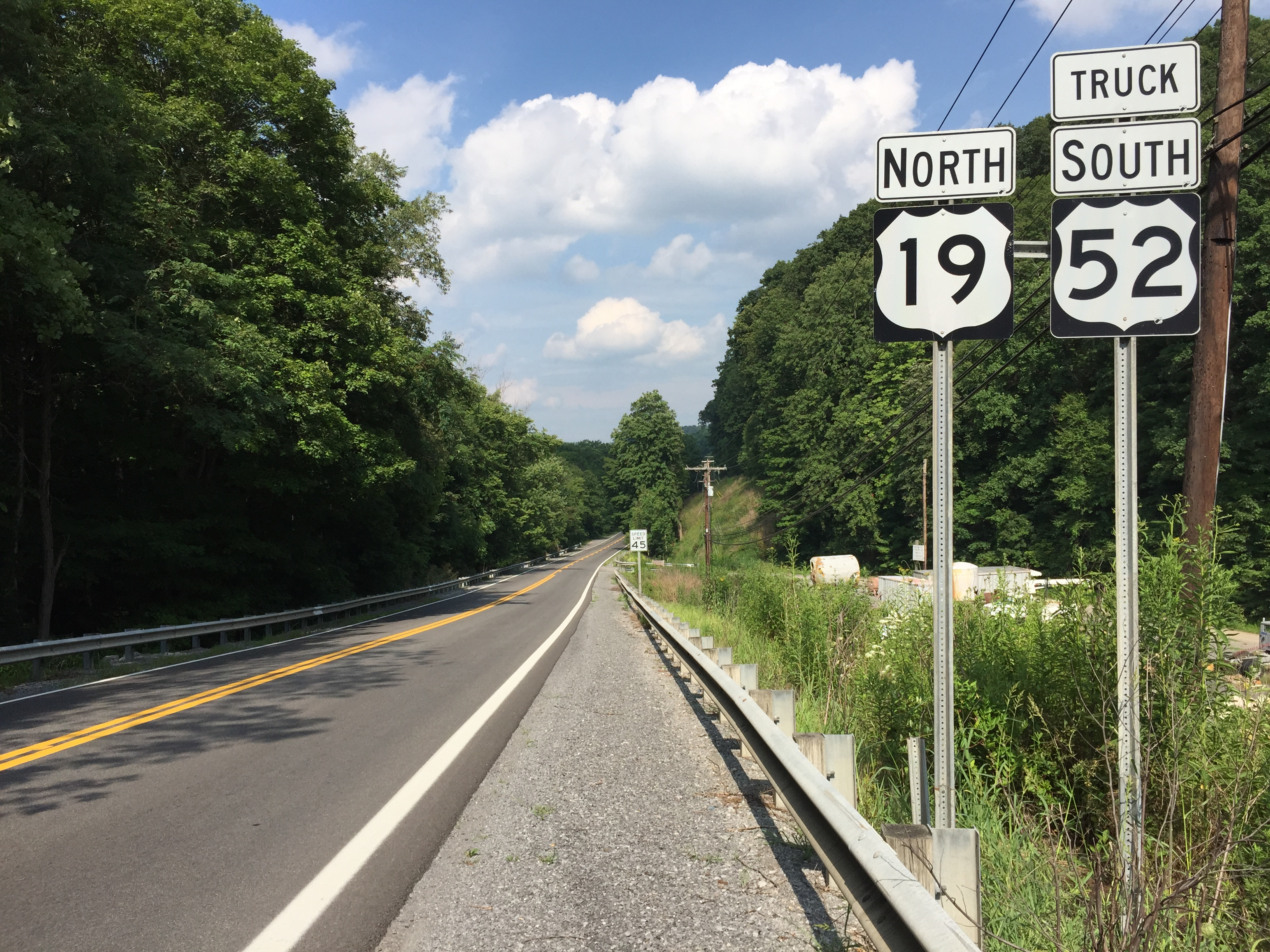 View north along U.S. Route 19 and south along U.S. Route 52 Truck (Princeton Avenue) at Grassy Branch Road just northeast of Bluefield in Mercer County, West Virginia